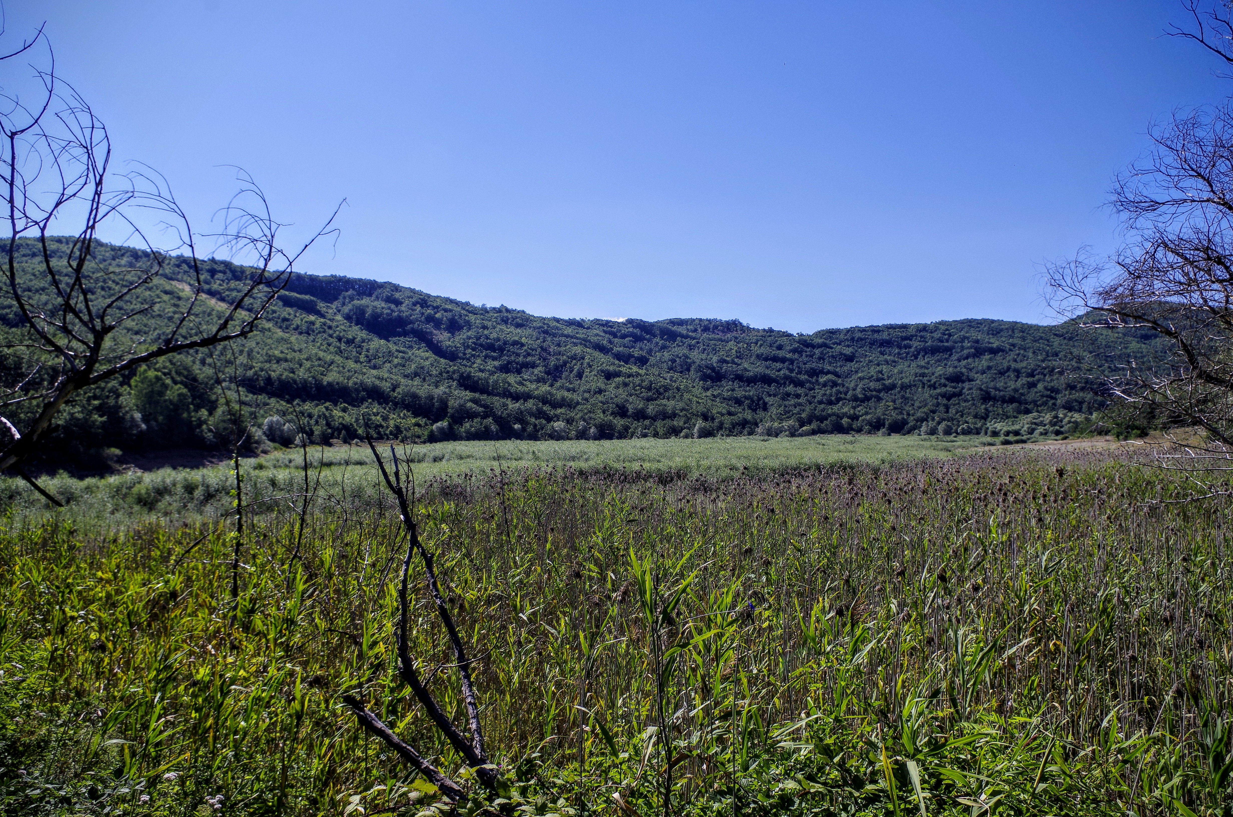 View of the dried Slatino Lake in the village Slatino